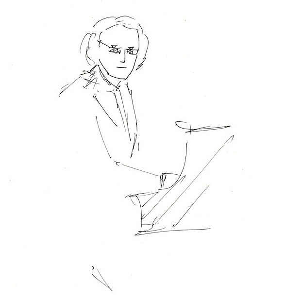 Vasily Shcherbakov during a concert in Moscow, sketch by Vokabre, 2010-05.